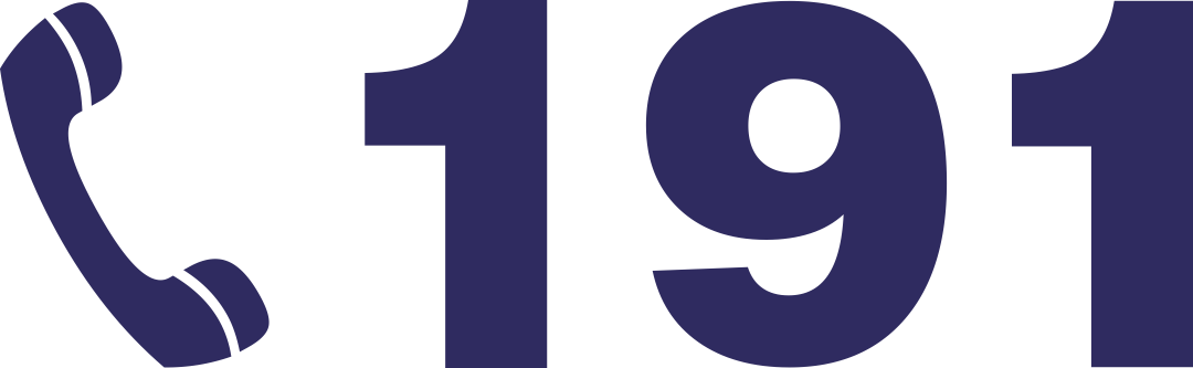 Assinatura 191